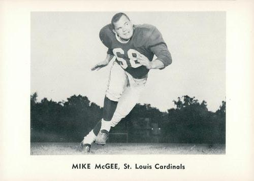 A promotional image of St. Louis Cardinals American football player Mike McGee.